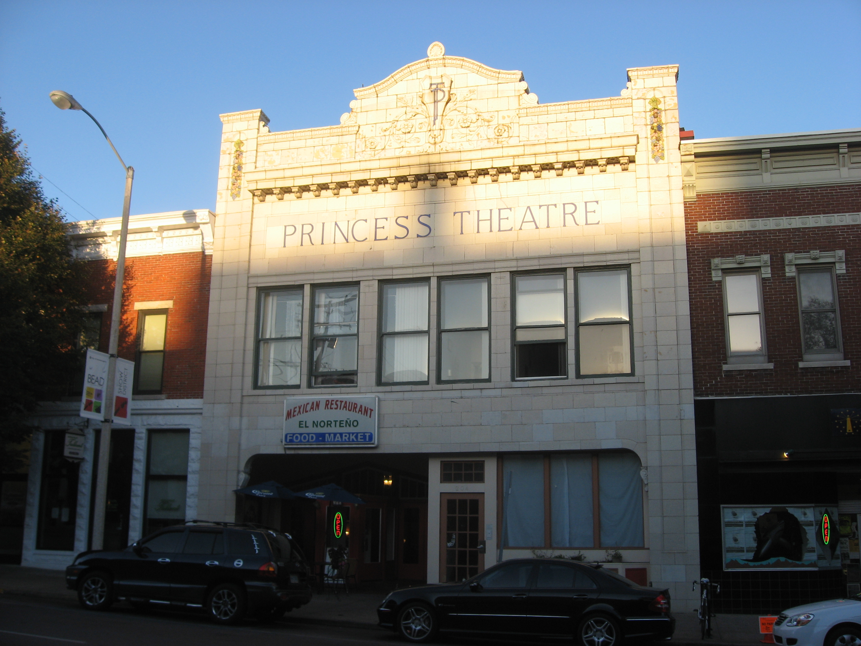 Front of the Princess Theatre, located at 206 N. Walnut Street in downtown Bloomington, Indiana, United States. Built in 1923, it is listed on the National Register of Historic Places, and it is part of a Register-listed historic district, the Courthouse Square Historic District.